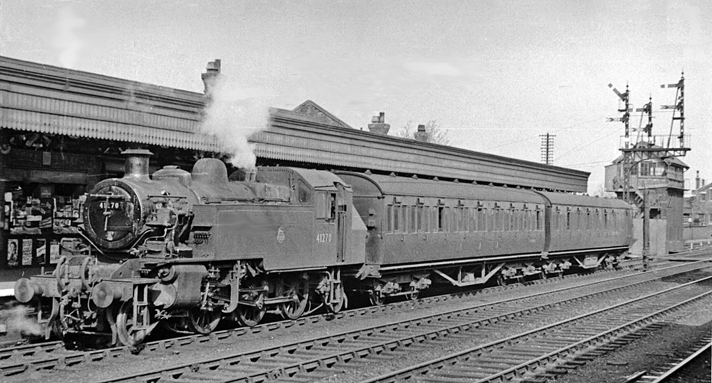 Auto-train to Bedford at Hitchin Station. View NW, to Down platform and Hitchin Yard Box and the East Coast Main Line, from which the Bedford branch went off to the NW after half a mile and past the junction of the line to Cambridge. The auto-train is propelled by LMS-type Ivatt 2MT 2-6-2T No. 41270.